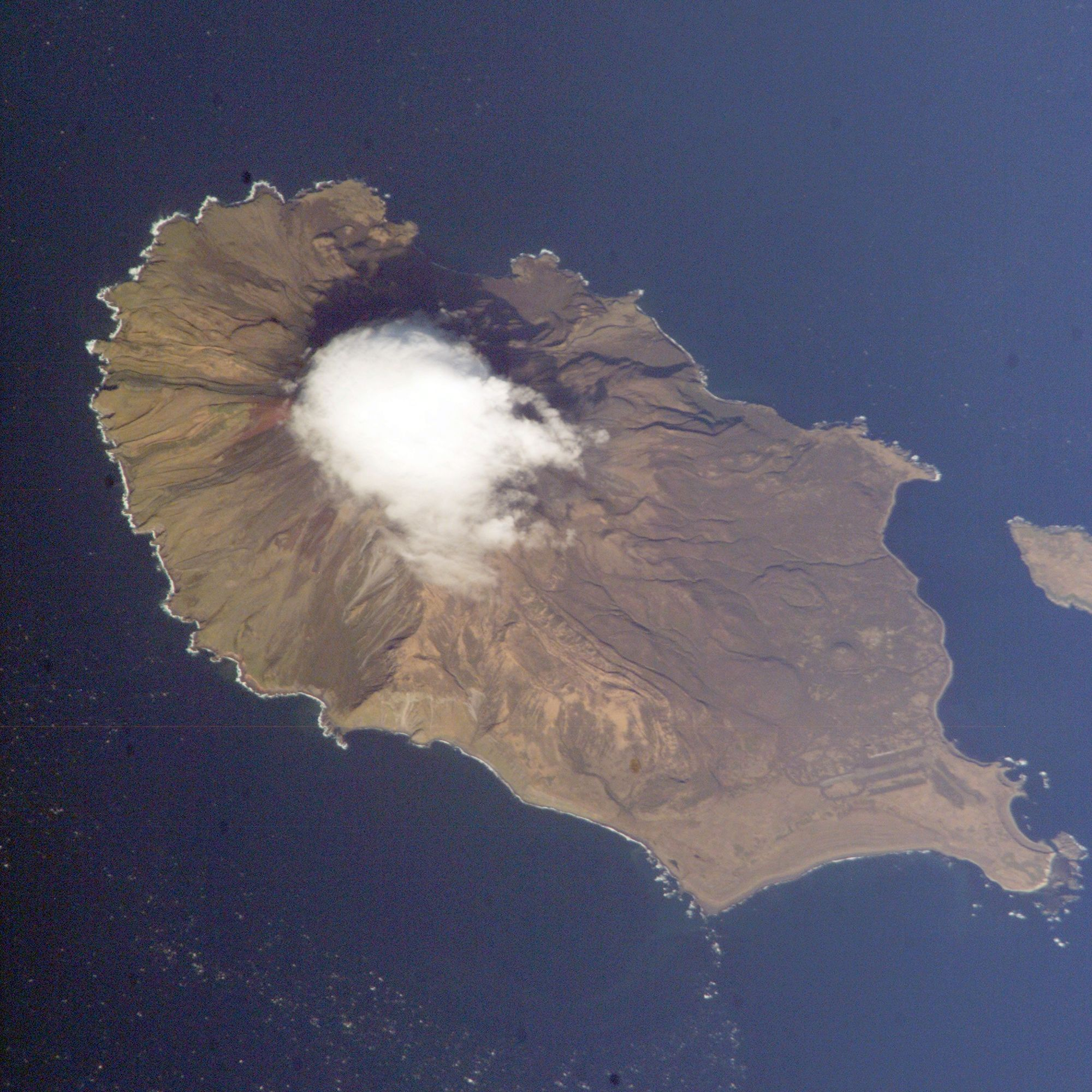 Matsuwa Island, Kuril Islands